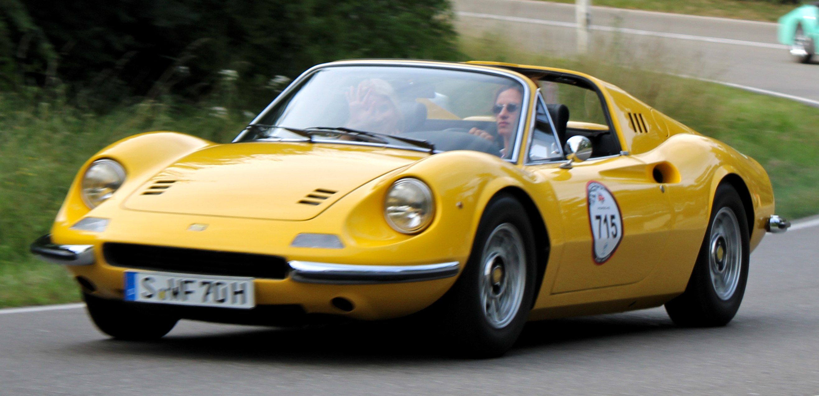 Ferrari Dino 246 GTS Targa (1973) at Solitude Revival 2019